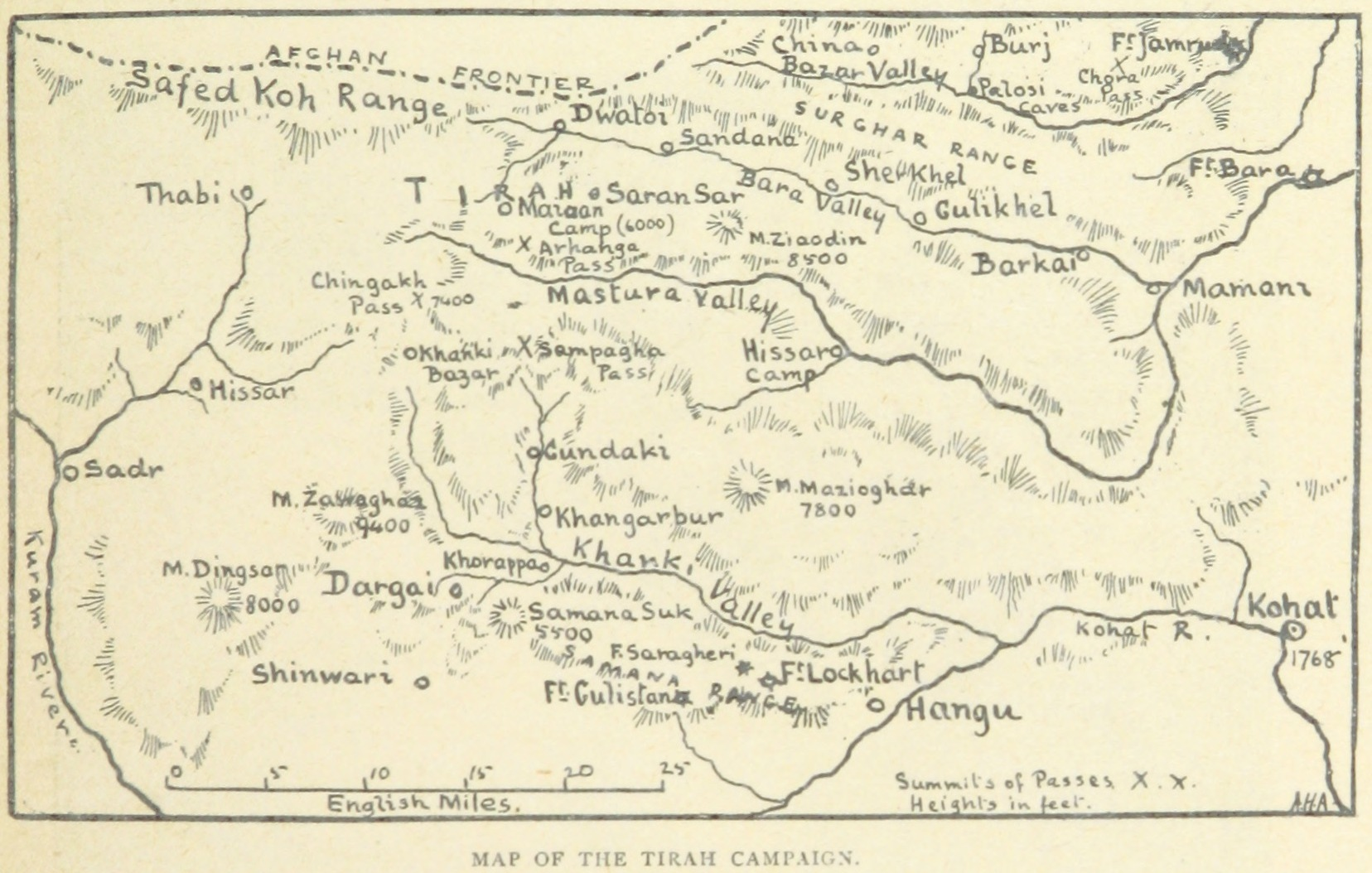 A map of places and battles in the 1897-1898 Tirah Campaign.